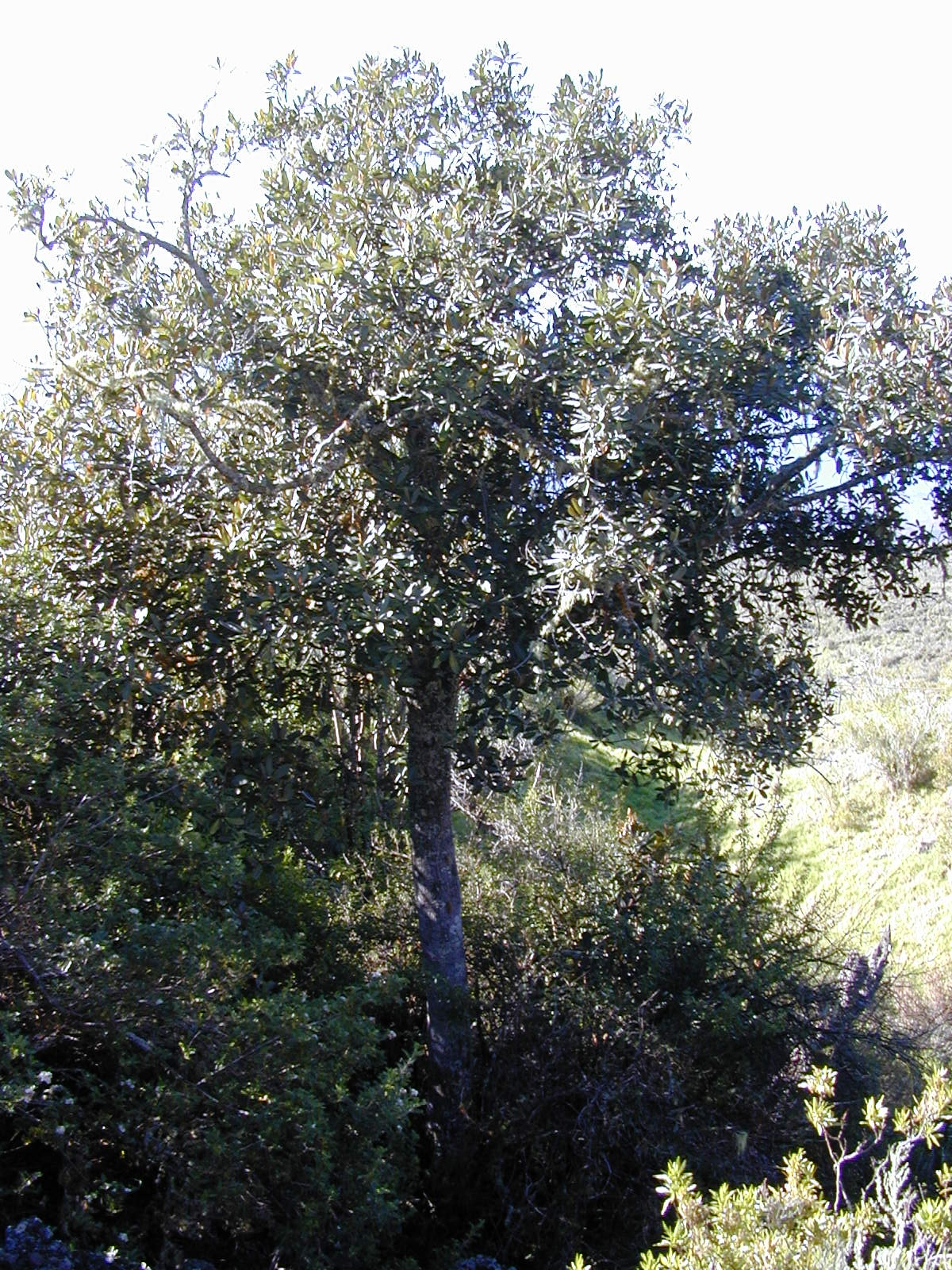 Pouteria sandwicensis (leaves). Location: Maui, Auwahi